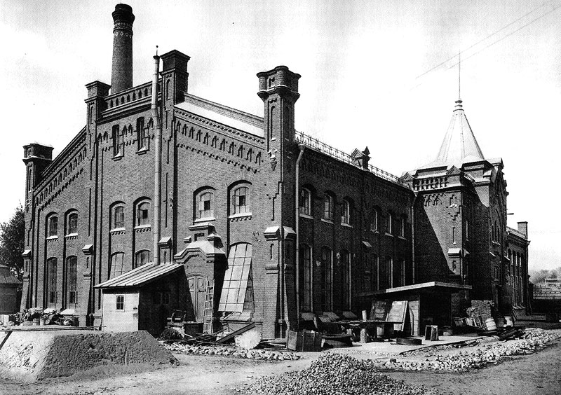 Sewage Pump House, 1890s - present-day Museum of City Utilities.